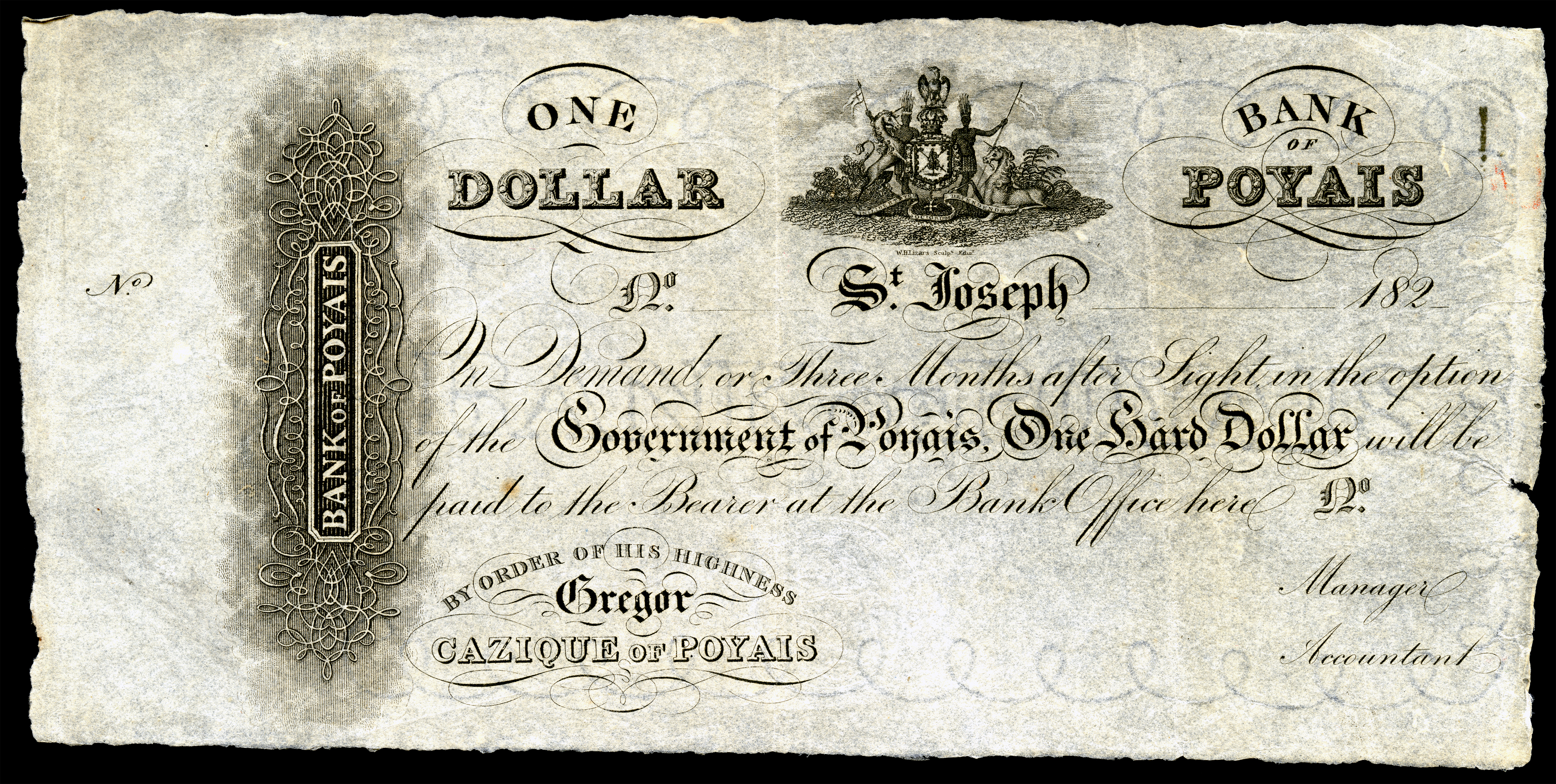 One dollar, Bank of Poyais, Republic of Poyais (1820s). After fighting in South and Central America, the Scottish soldier Gregor MacGregor created an elaborate scam claiming to have been made a Cacique of the entirely fictitious Cazique of Poyais, all in an effort to defraud land investors. Nearly 200 died in 1822–23 in connection with MacGregor's deception.